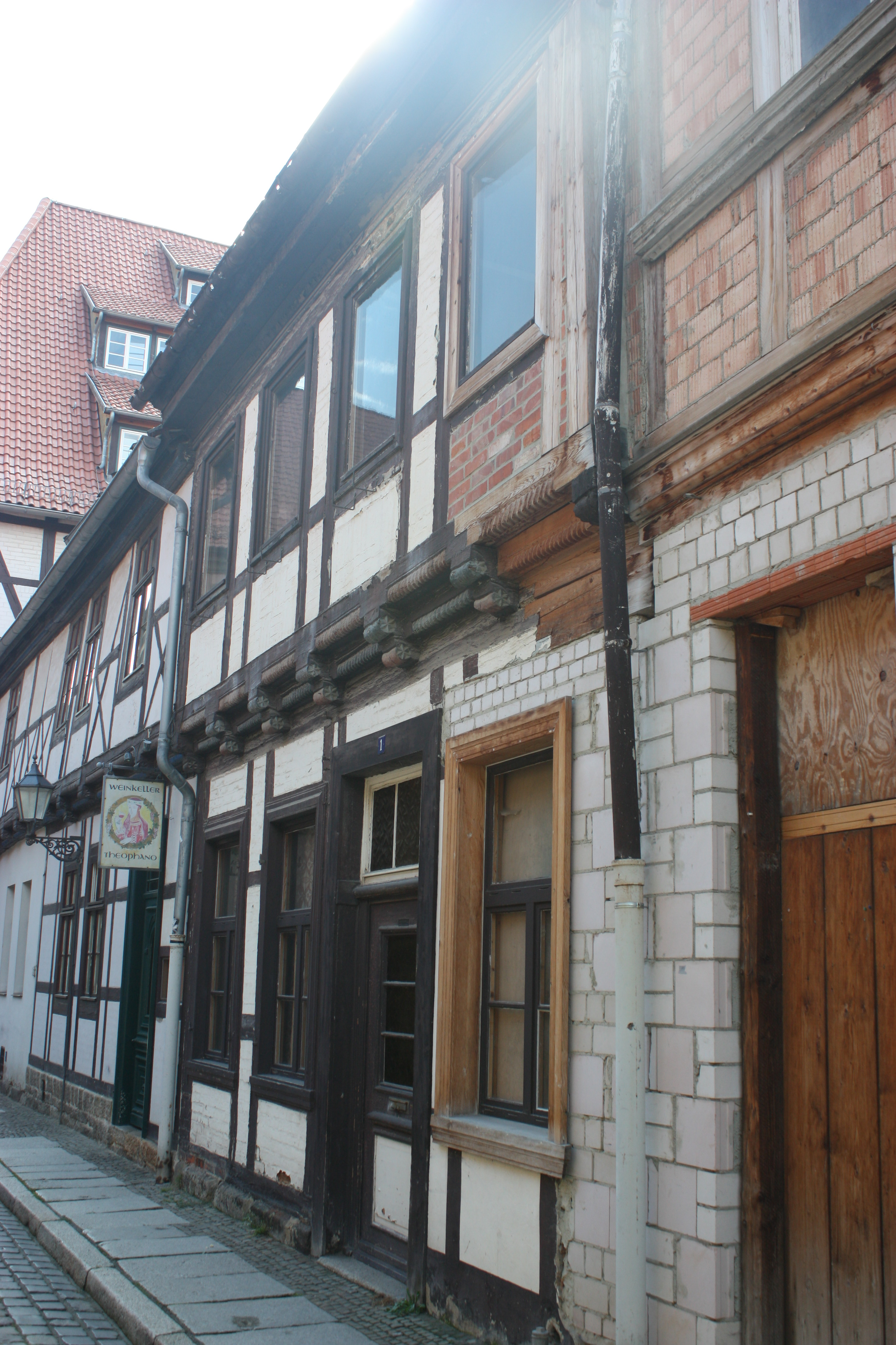 This is a photograph of an architectural monument.It is on the list of cultural monuments of Quedlinburg Hohe Straße 01